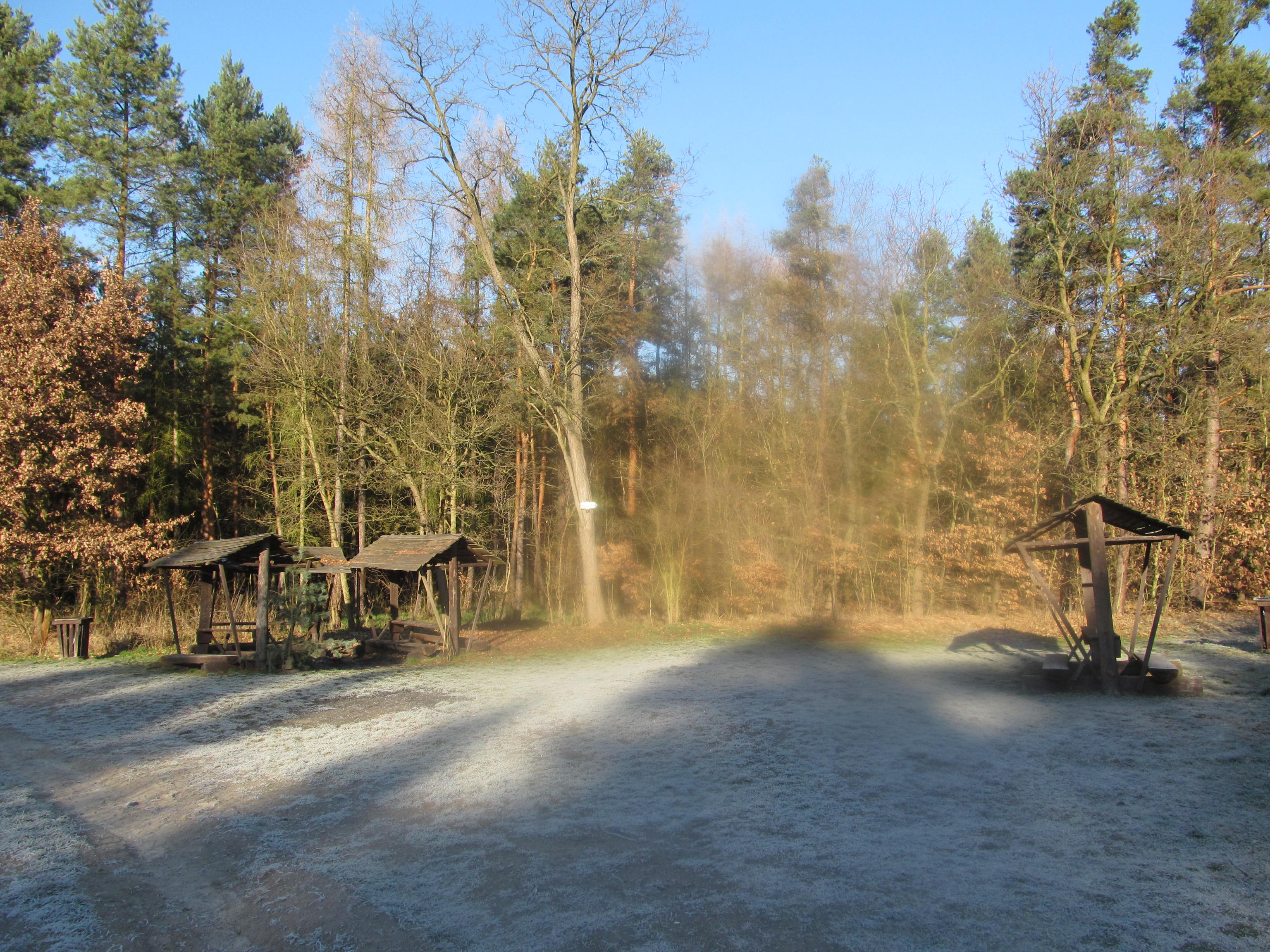 Rest area in the educational trail Holedeč by Žatec